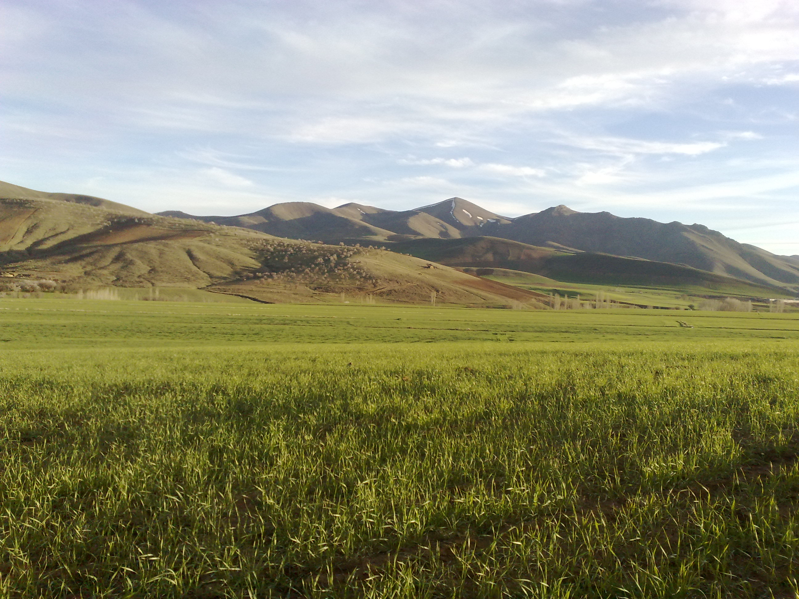 Valley of Kamatouh in Saqqez - Iran